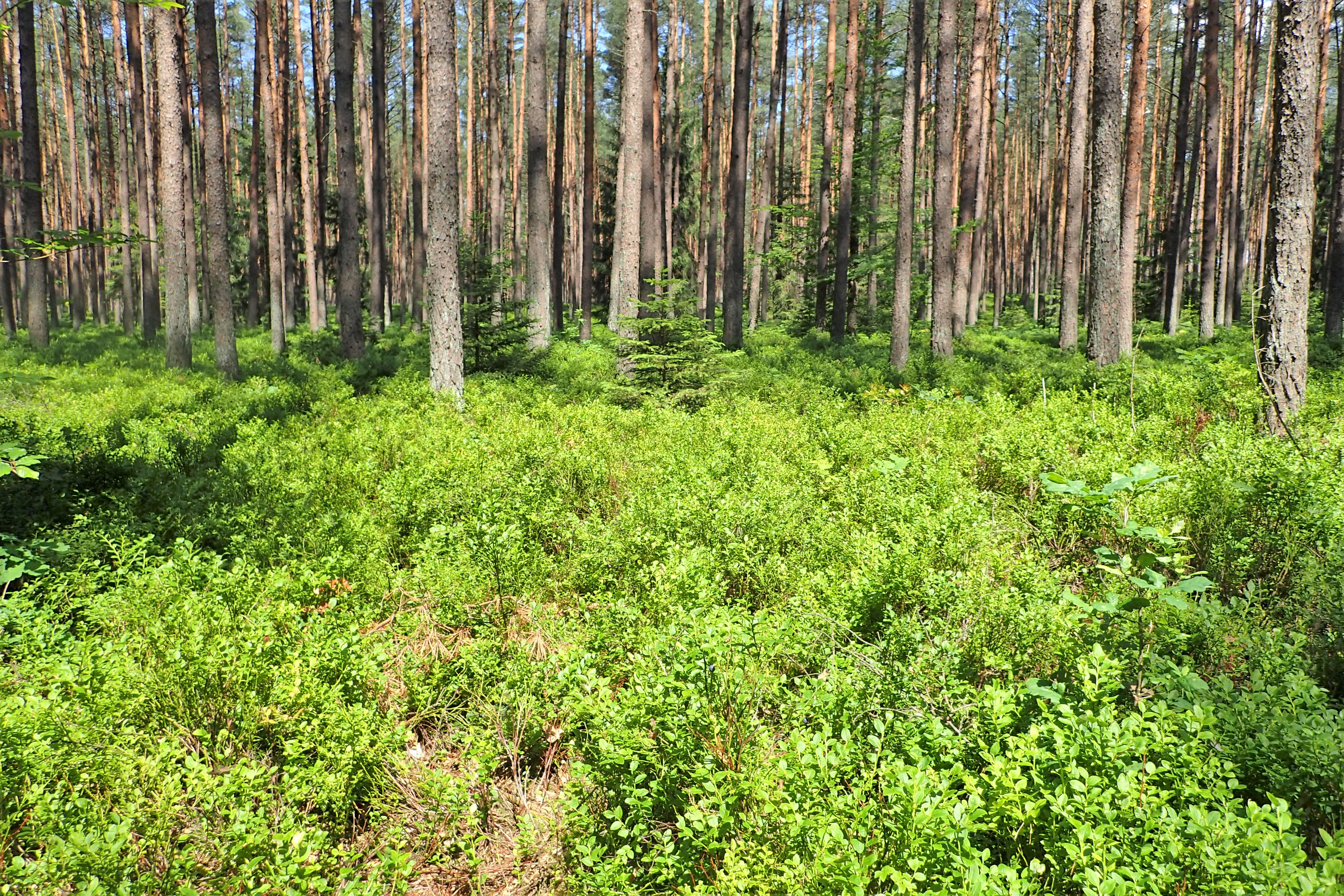 Pine forest in Nowogard Forest Inspectorate, vicinity of Czermnica, NW Poland